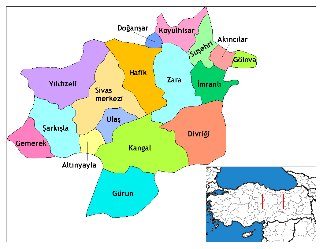 Map of the districts of Sivas province in Turkey. Created by Rarelibra 17:51, 4 December 2006 (UTC) for public domain use, using MapInfo Professional v8.5 and various mapping resources. Edited by One Homo Sapiens Corrected text where İ,Ş,ı,ğ,or ş occurs in name. Source: [statoids-com]. Increased font size and enhanced color differences among adjacent districts.